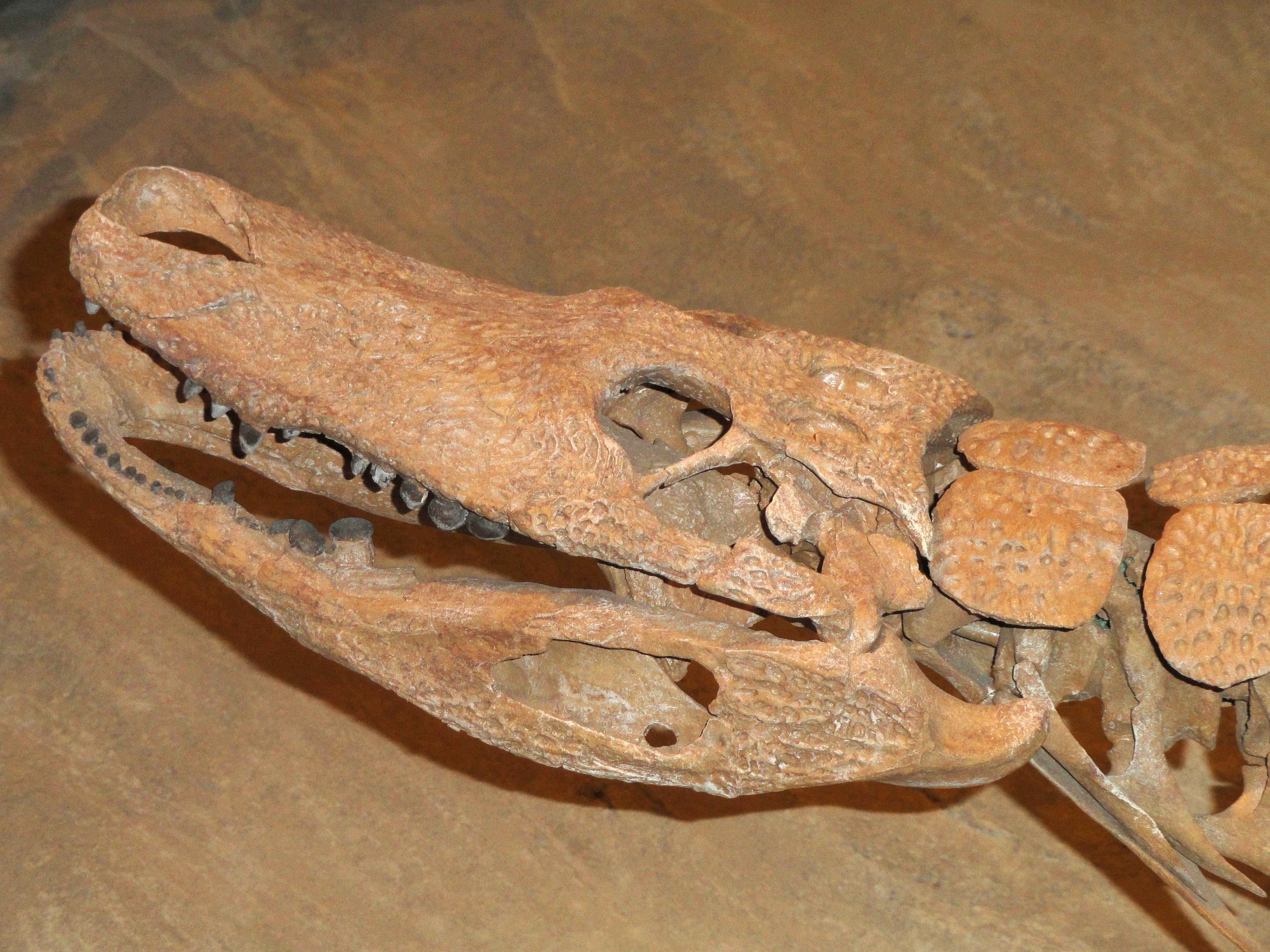 Fossil specimen in the Natural History Museum of Utah, Salt Lake City, Utah, USA.